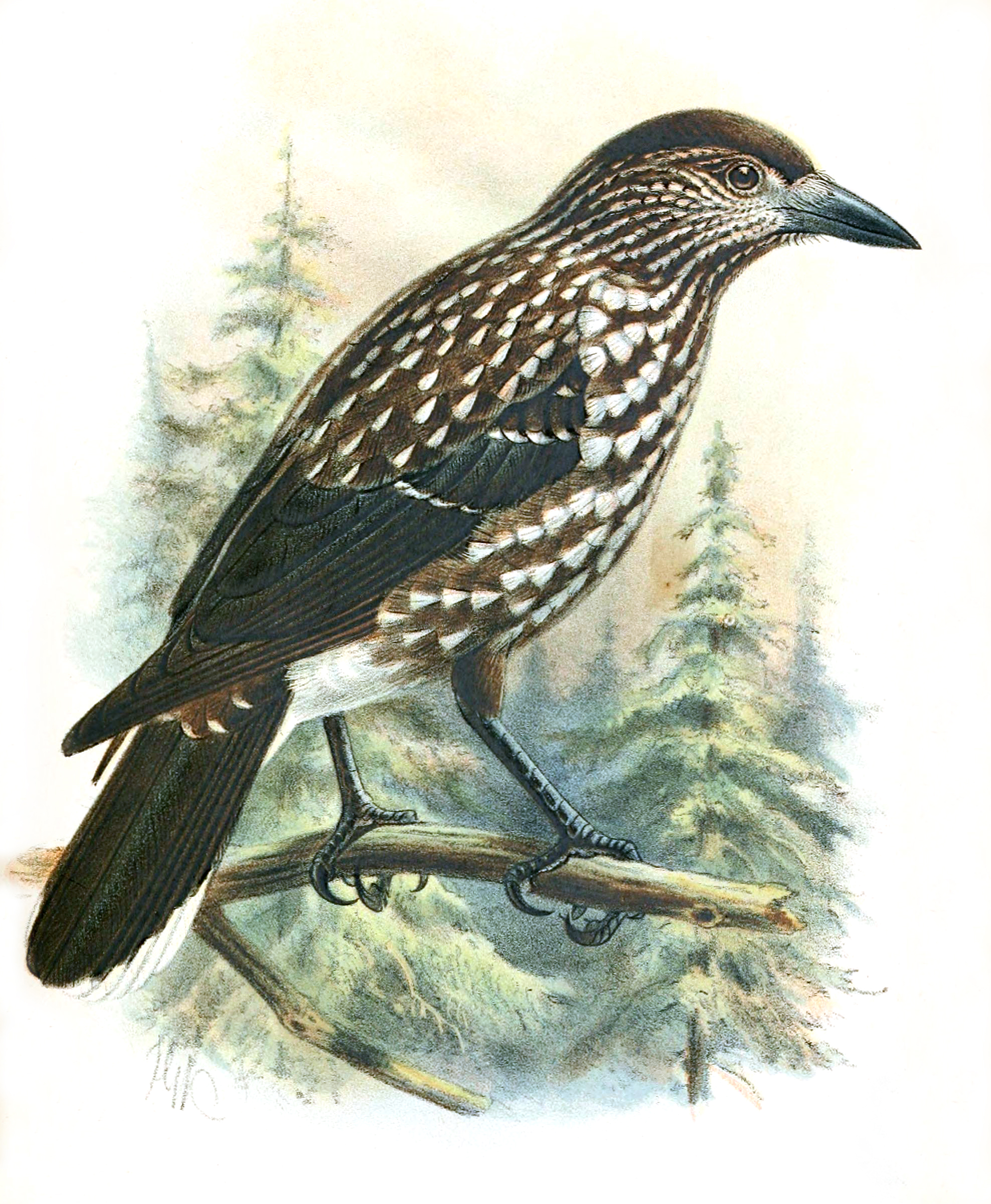 Title: The birds of Sussex Year: 1891 (1890s) Authors: Borrer, William, 1814-1898 Subjects: Birds Publisher: London, R. H. Porter Text Appearing Before Image: ' Text Appearing After Image: J- G-.Kf.ulema.ns de) e-.l litK iiintem Bros. Cr.ror: THE NUTCRACKER.